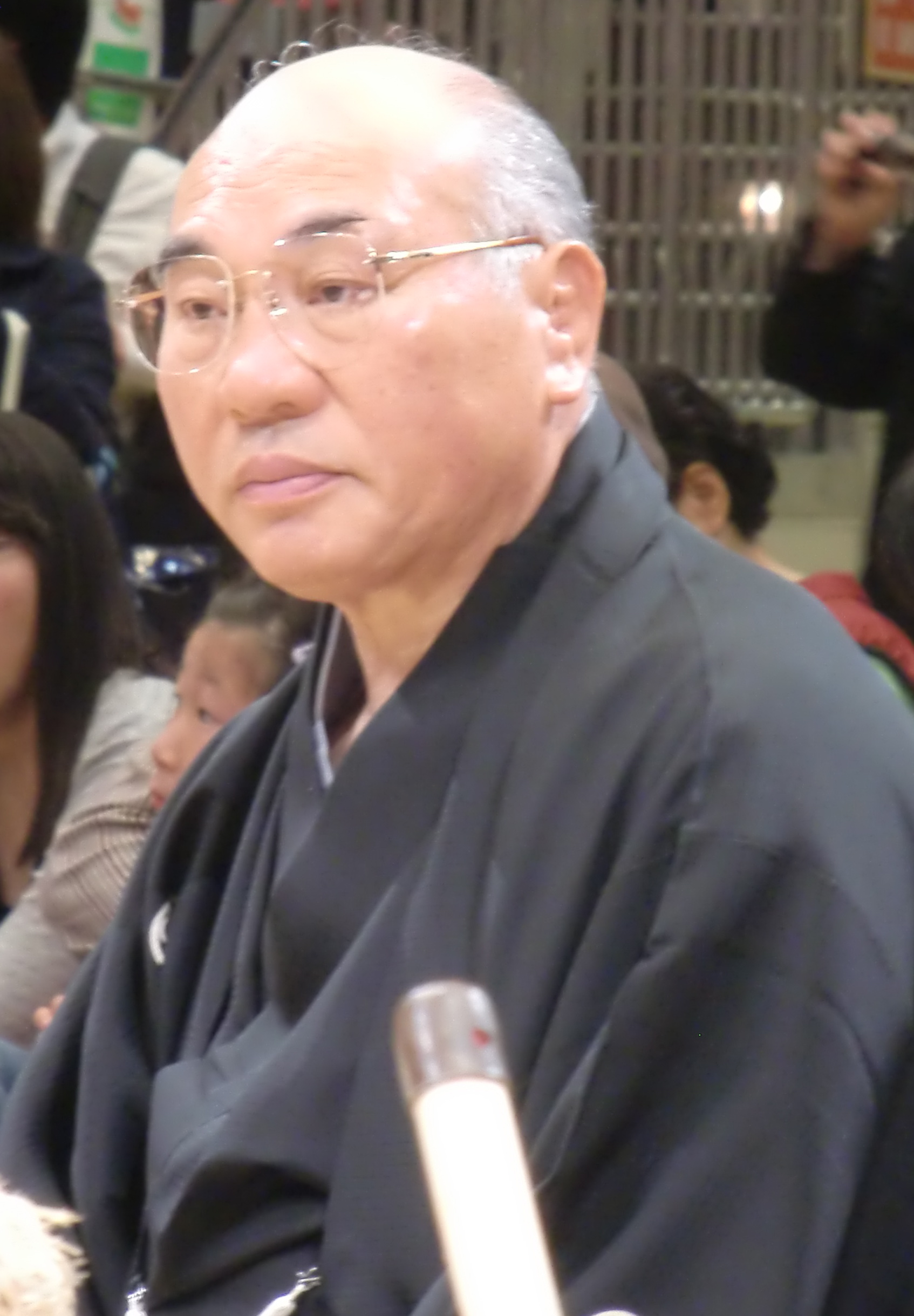 taken at 2010 May tournament